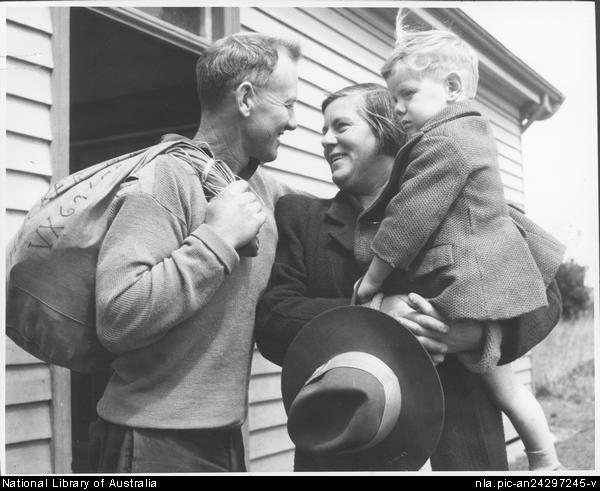 Jim Fitzpatrick 1916- Collection of photos Drouin town and rural life during WW2